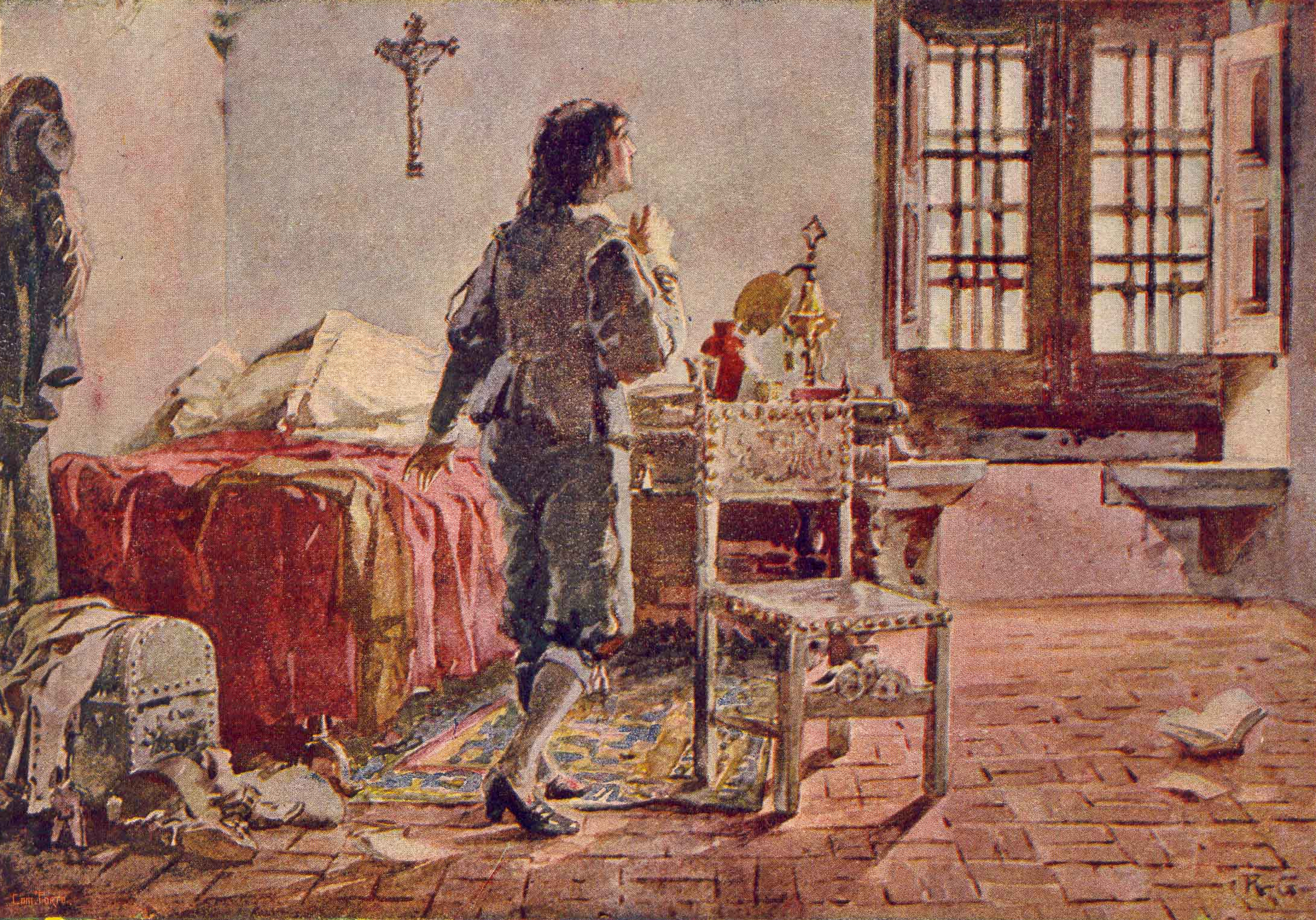 "King Afonso VI disturbs the citizens of Lisbon", by Roque Gameiro, in Quadros da História de Portugal ("Pictures of the History of Portugal", 1917).